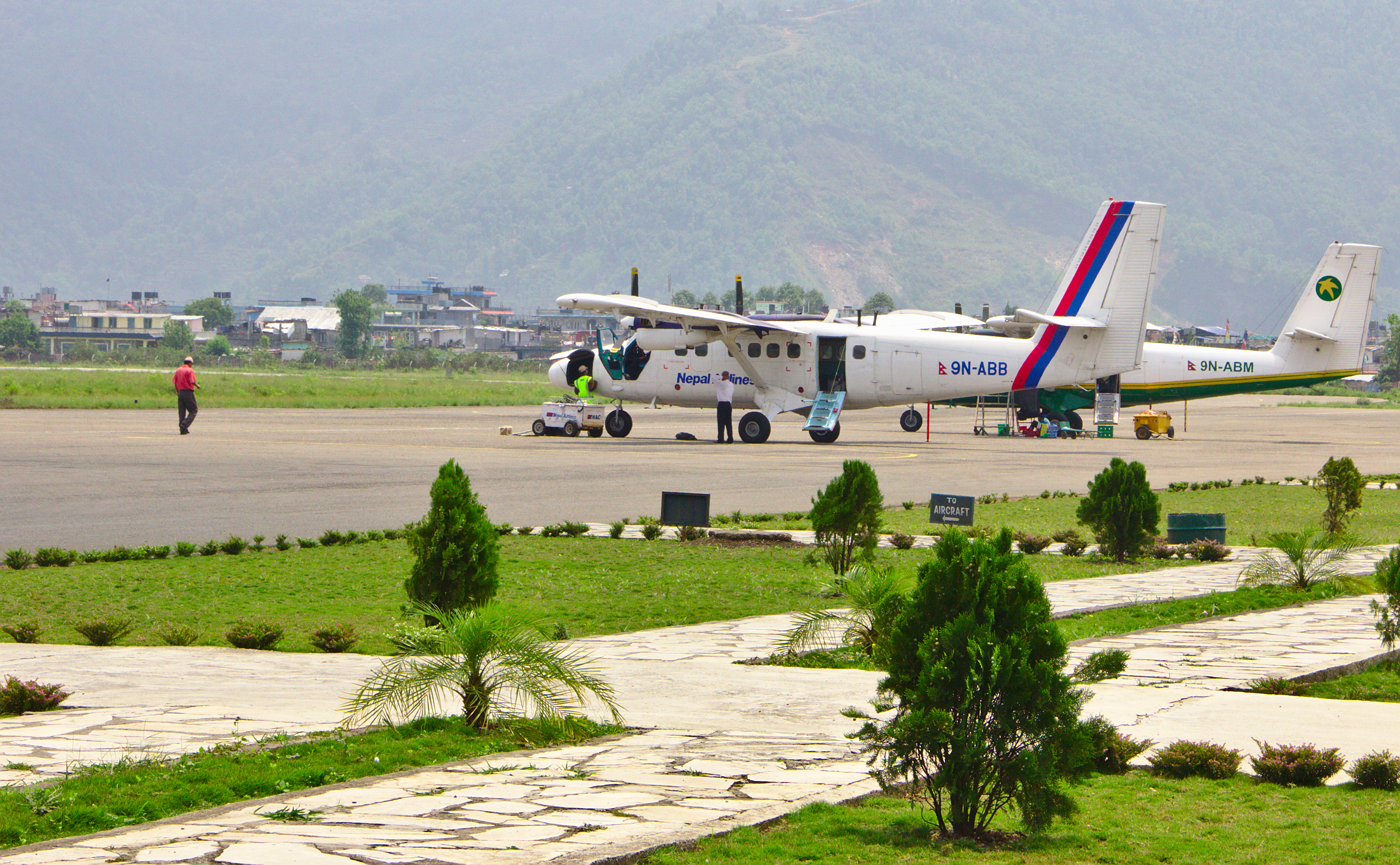 Pokhara Airport (IATA: PKR, ICAO: VNPK), is a regional airport serving Pokhara in Nepal. The airport was established on 4 July 1958 and is operated by the government (Civil Aviation Authority of Nepal). It offers regular connections to Kathmandu and Jomsom; and seasonal connections to Manang. Following a new agreement on air travel between India and Nepal, Pokhara is to be the site of Nepal's second international airport. Construction started in the southeast of Pokhara in 2009 but is only progressing slowly. In 2011 Buddha Air, a Nepali private airline, began international flights from Pokhara to Chaudhary Charan Singh International Airport in Lucknow, India, and has announced plans to fly to New Delhi's Indira Gandhi International Airport in the future.